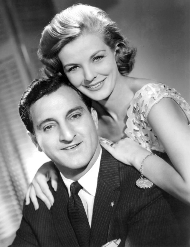 Publicity photo of Danny Thomas and Marjorie Lord from the television program Make Room for Daddy.